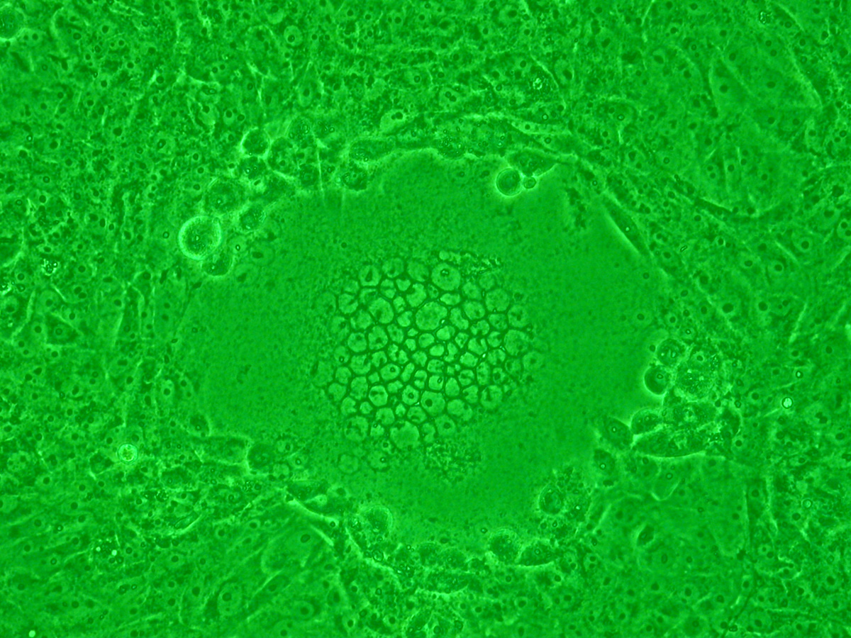 "Syncytium forming"-type cytopathic effect induced by the virus infection. (a mutant strain of HSV-1 was infected within Vero cells). Phase-contrast microscopic image of 100-fold magnification under green light.